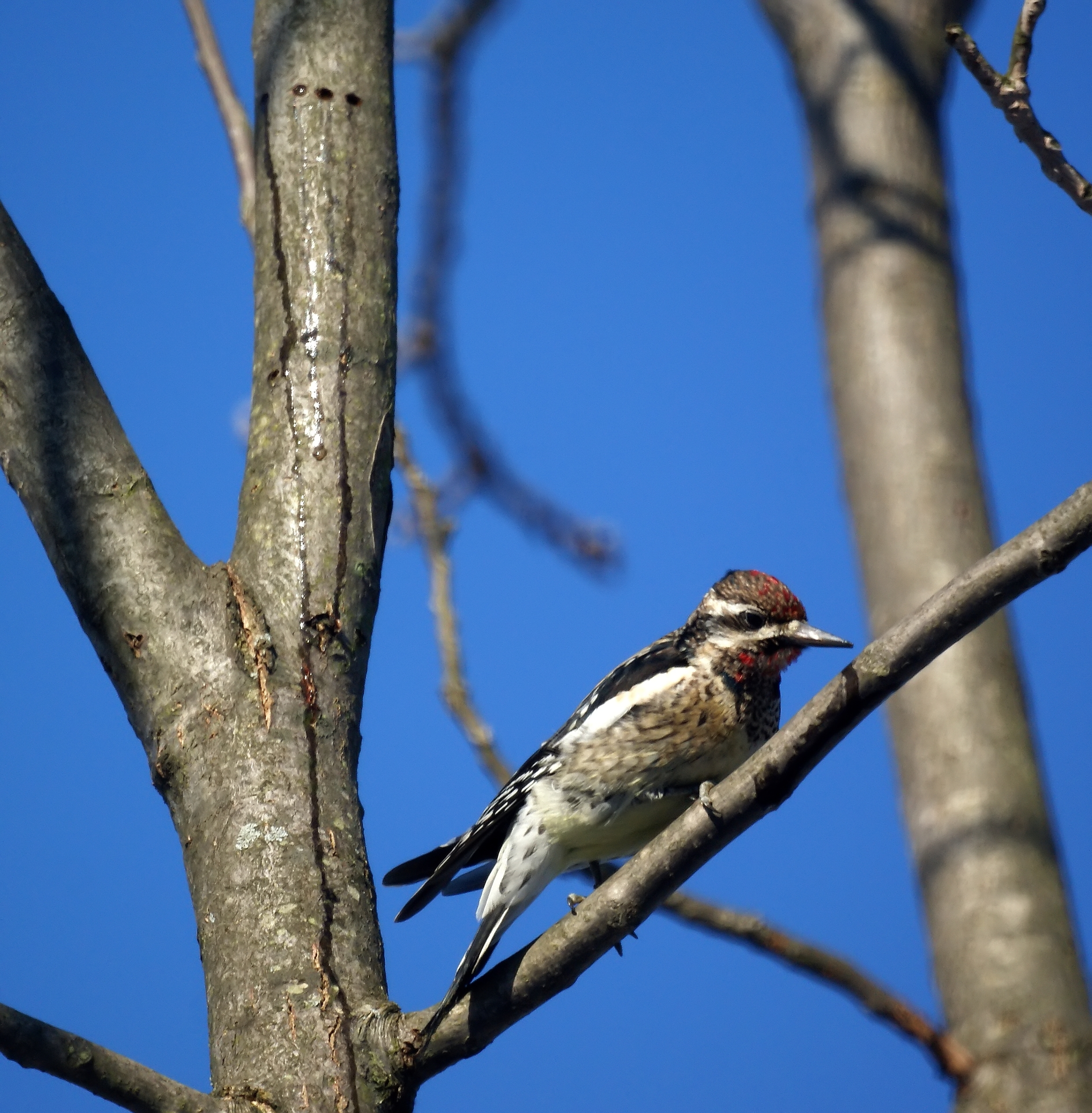 Yellow-bellied Sapsucker (Sphyrapicus varius). In this photo, you can see the holes that he has opened up with the sap pouring out.